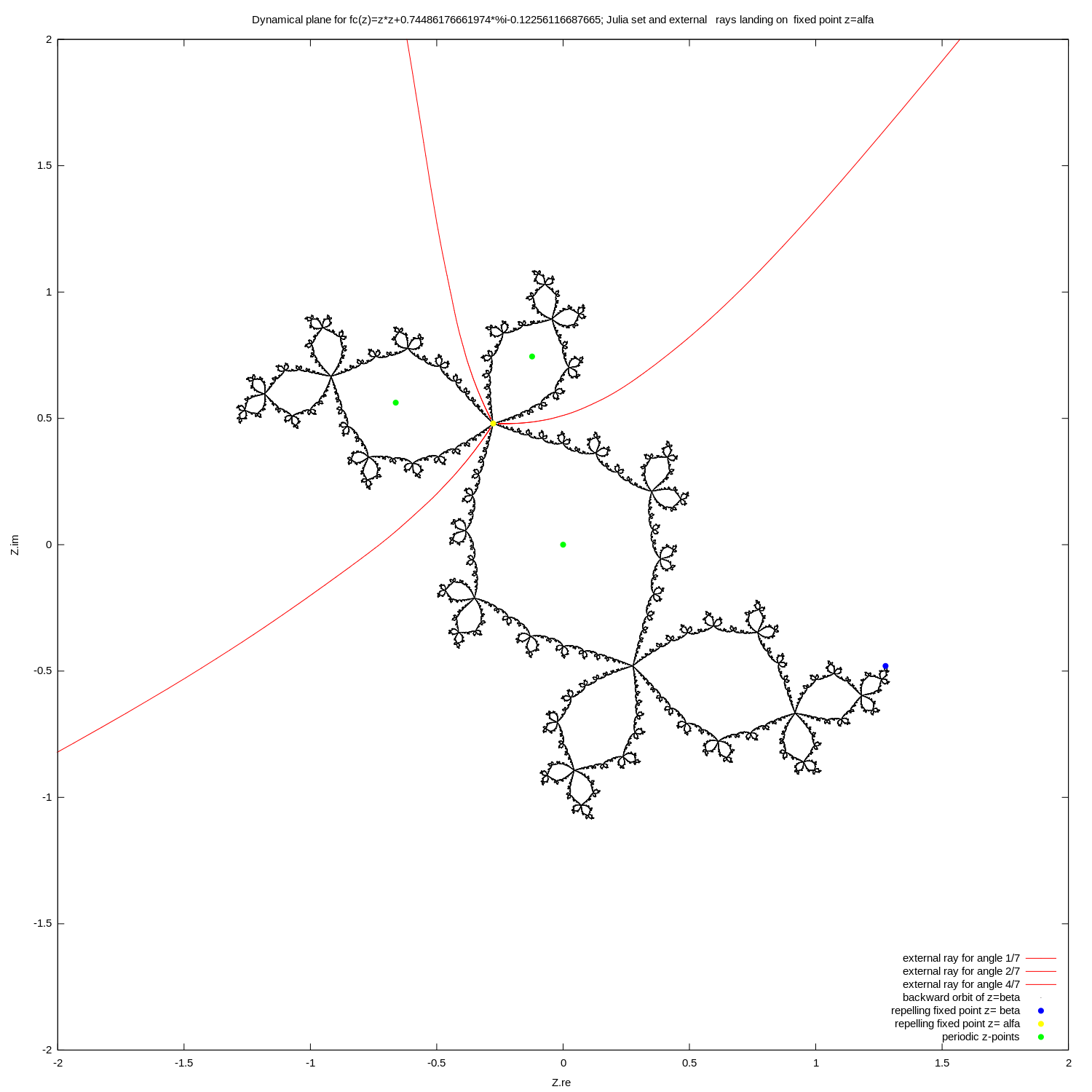 Julia set and external rays landing on fixed point α c {\displaystyle \alpha _{c}\,} . Parametr c is in the center of period 3 hyperbolic component of Mandelbrot set